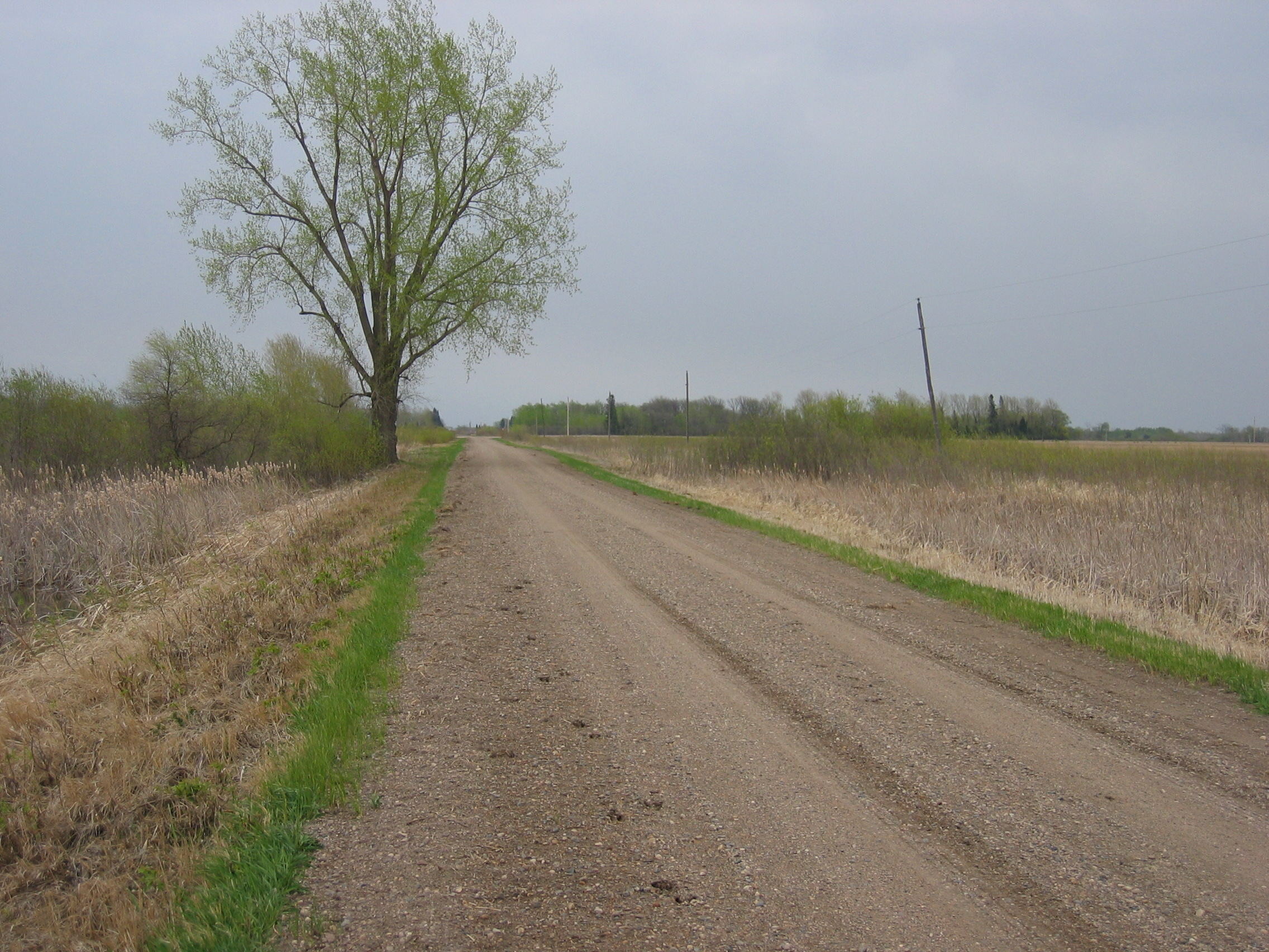 Personally photographed by the undersigned May 6, 2007Elcajonfarms 18:50, 1 July 2007 (UTC)